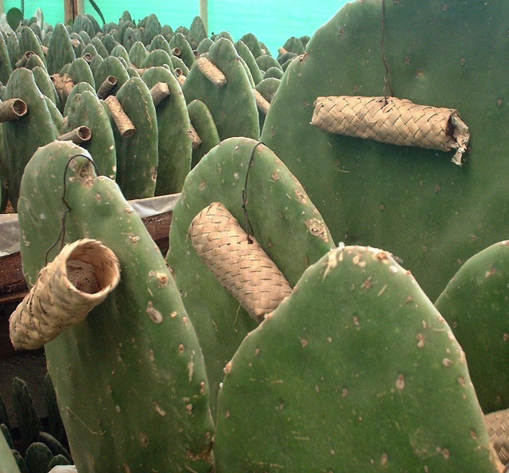 Breeding of the Cochineal (Dactylopius coccus) in Oaxaca, Mexico.